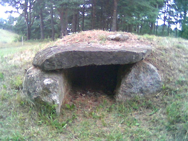 Poland. Olsztynek. Open air museum. (Skansen).